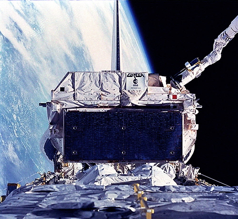 The European Retrievable Carrier (EURECA) is lowered into the payload bay of Endeavour, STS-57.